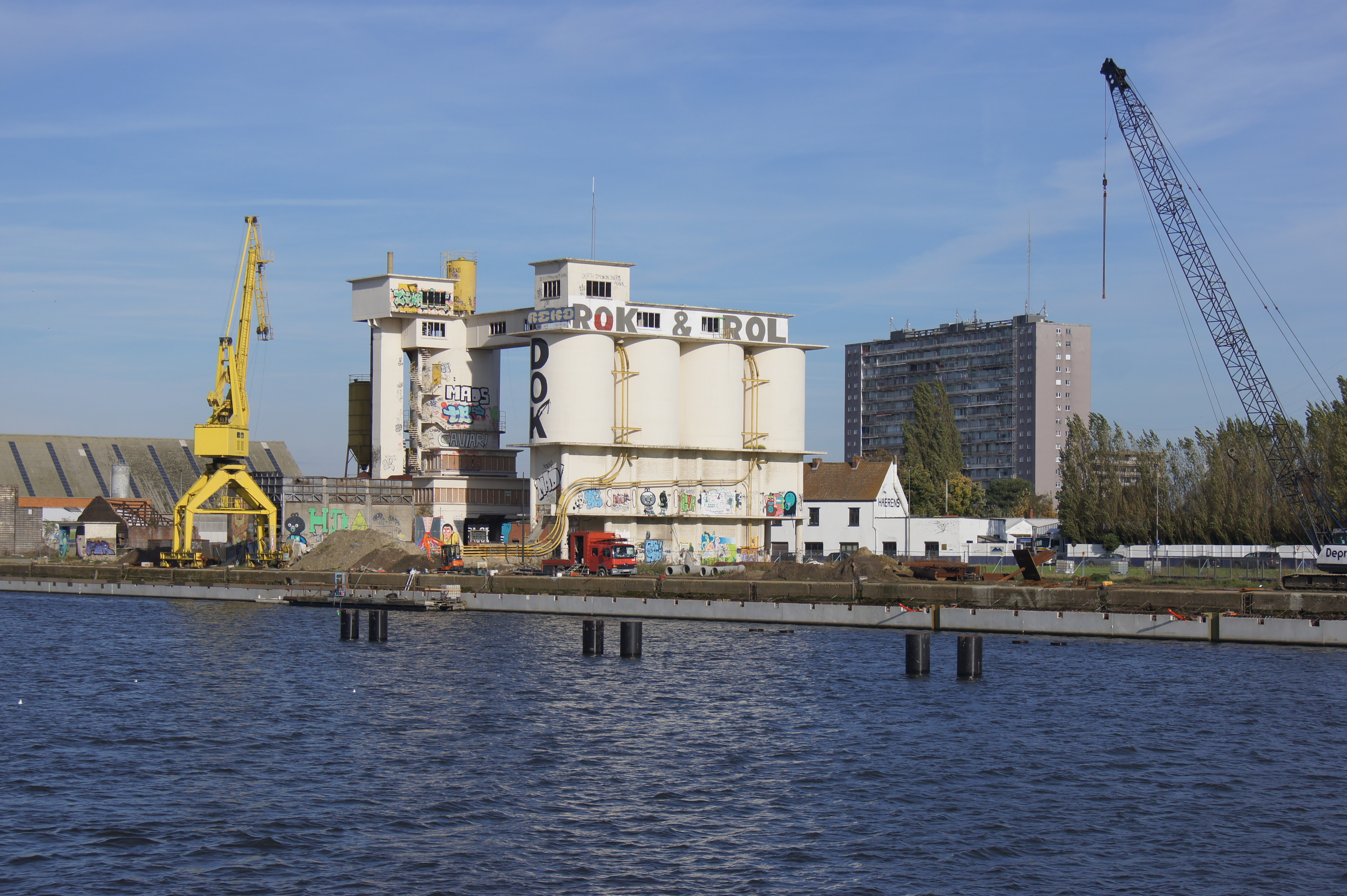 Ghent, Belgium: Former concrete factory